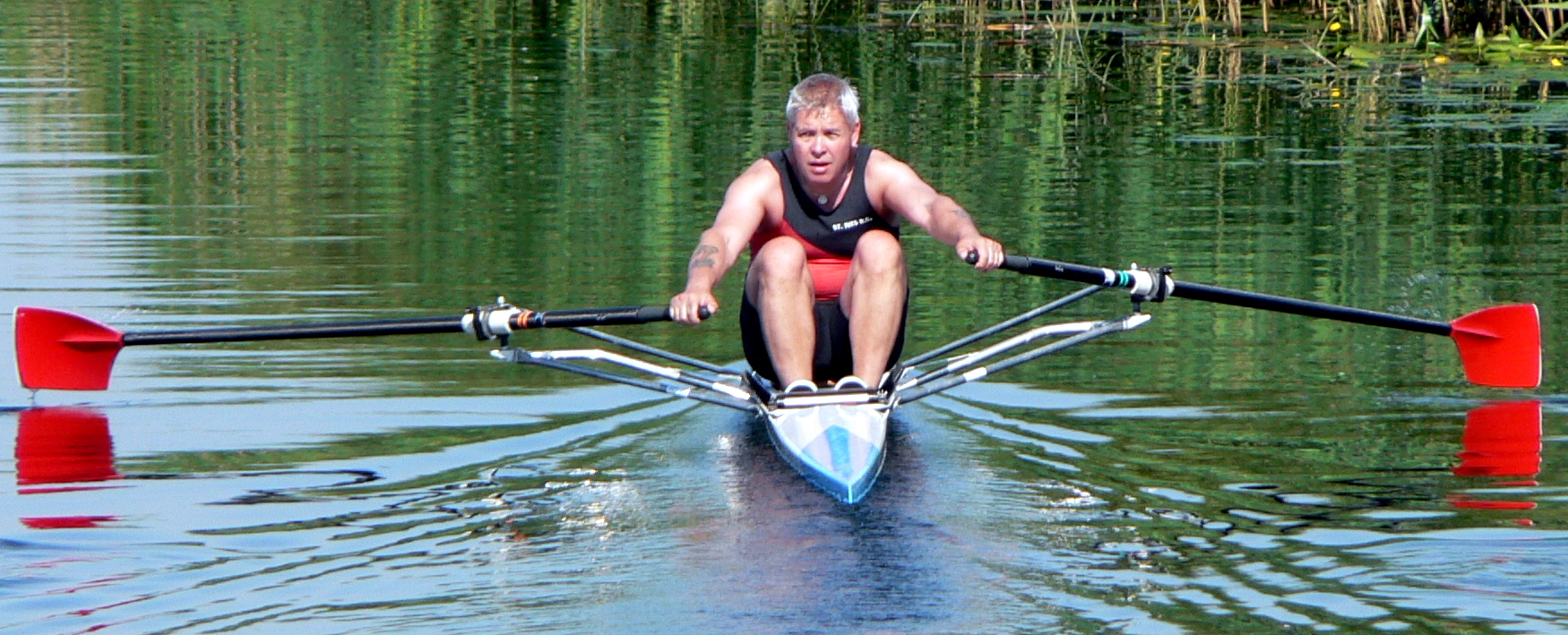 Seen on the Great Ouse 10/7/05scull